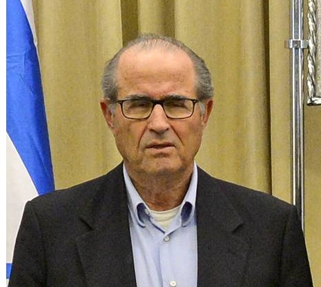 Shabtai Shavit